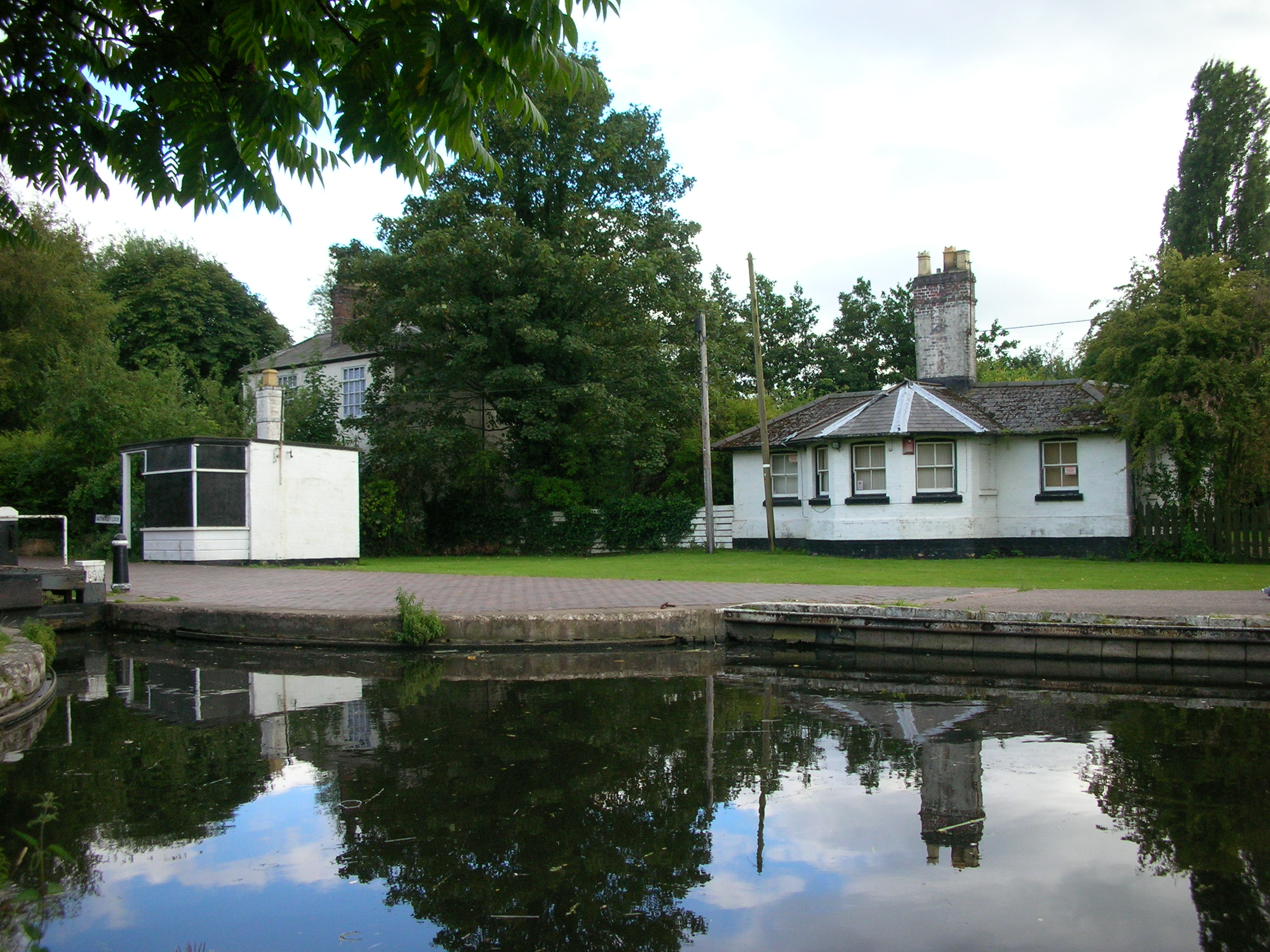 Toll houses at Autherley Junction, where the Shropshire Union Canal terminates and meets the Staffordshire and Worcestershire Canal near to Oxley, north Wolverhampton, West Midlands, England. Through the roving bridge a narrowboat is in the stop lock. Photographed by me 4 August 2007. Oosoom